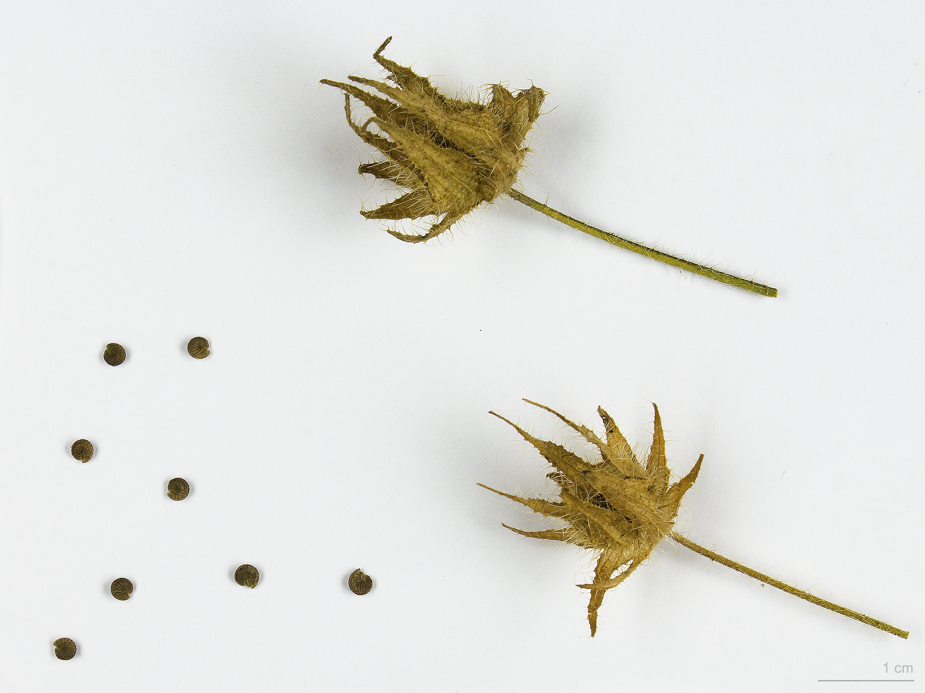 Althaea hirsuta, seeds